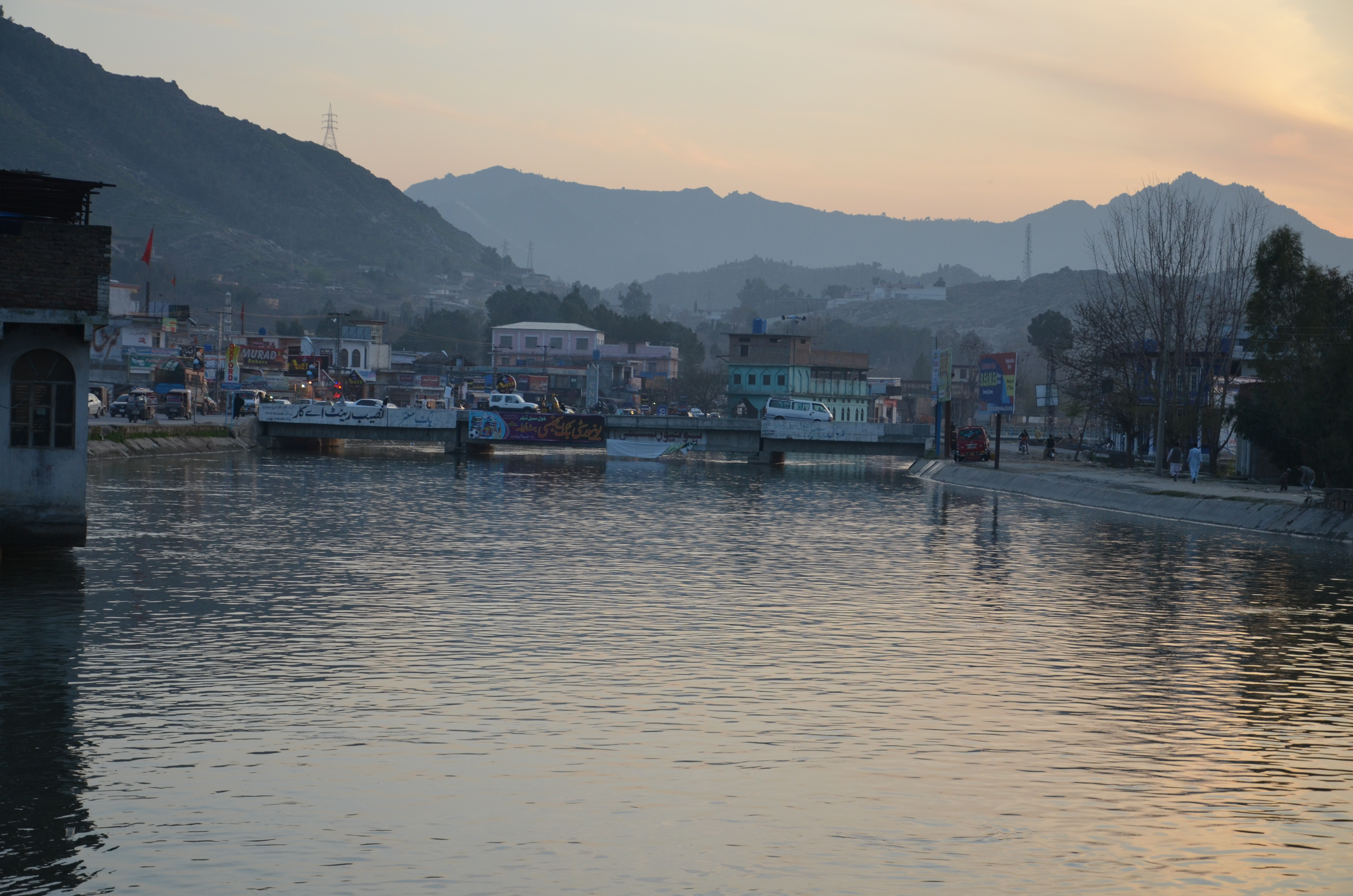 Photographed from Adda pul (bridge) by Zahidusman79